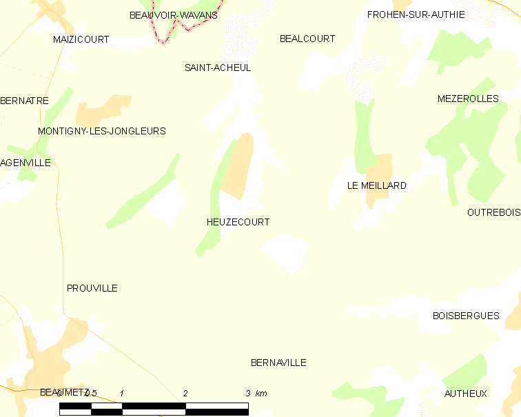 Map of French municipality Heuzecourt